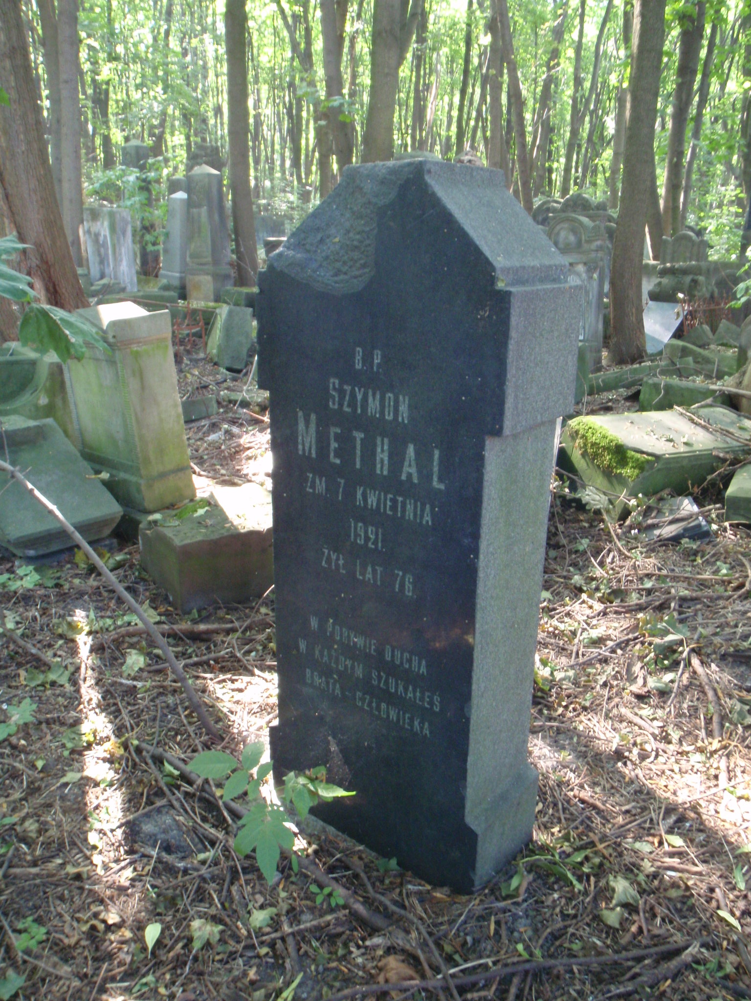 Grave of Szymon Methal